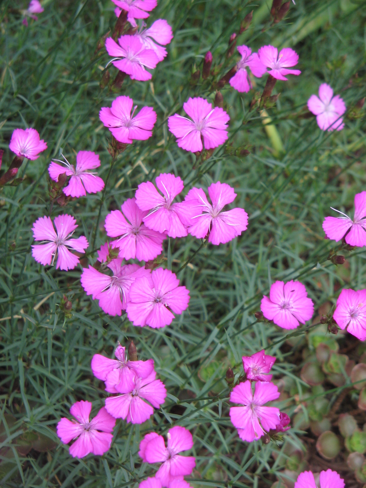 Dianthus graniticus